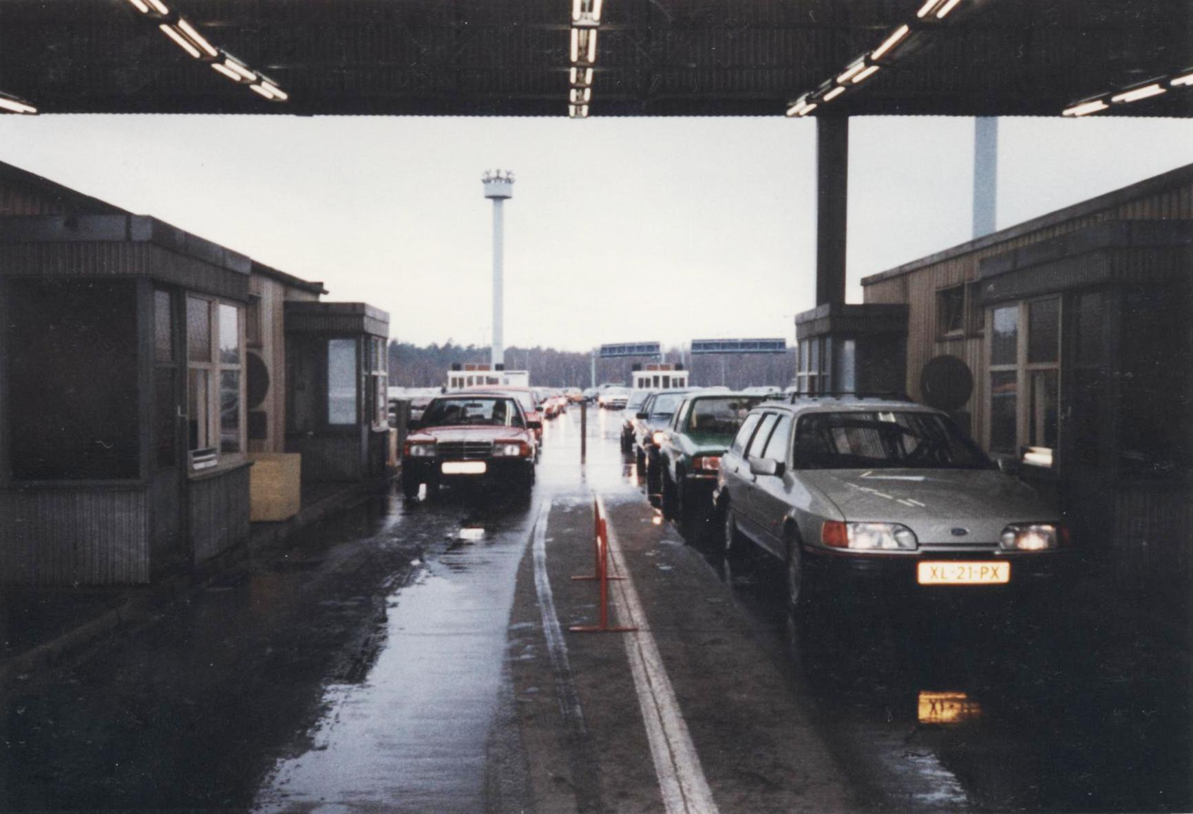 Border controls at the East German checkpoint Marienborn on December 1989